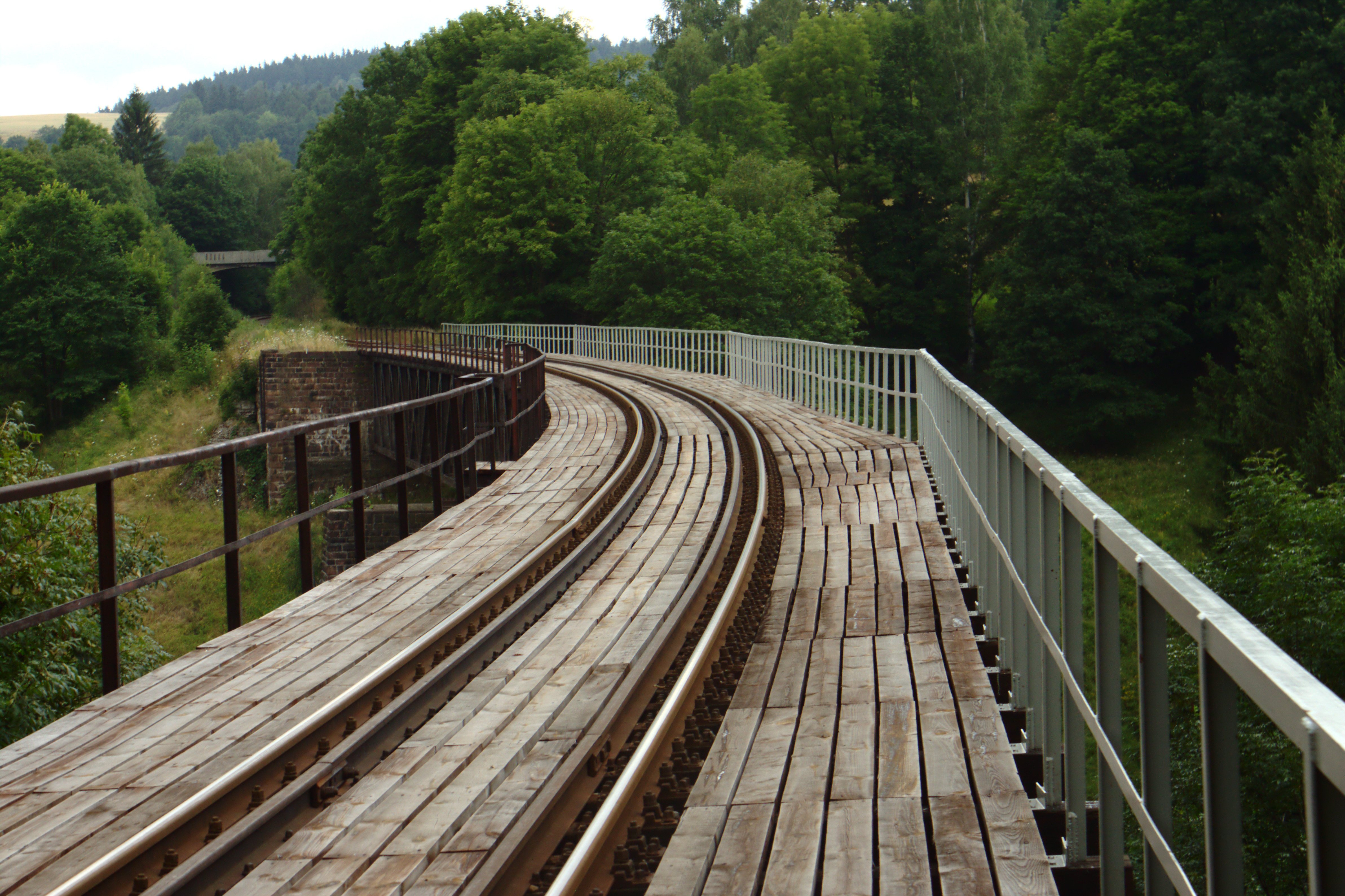 Rail viaduct in Nowa Ruda, over one of local valleys. Lower Silesian Voivodeship, Poland